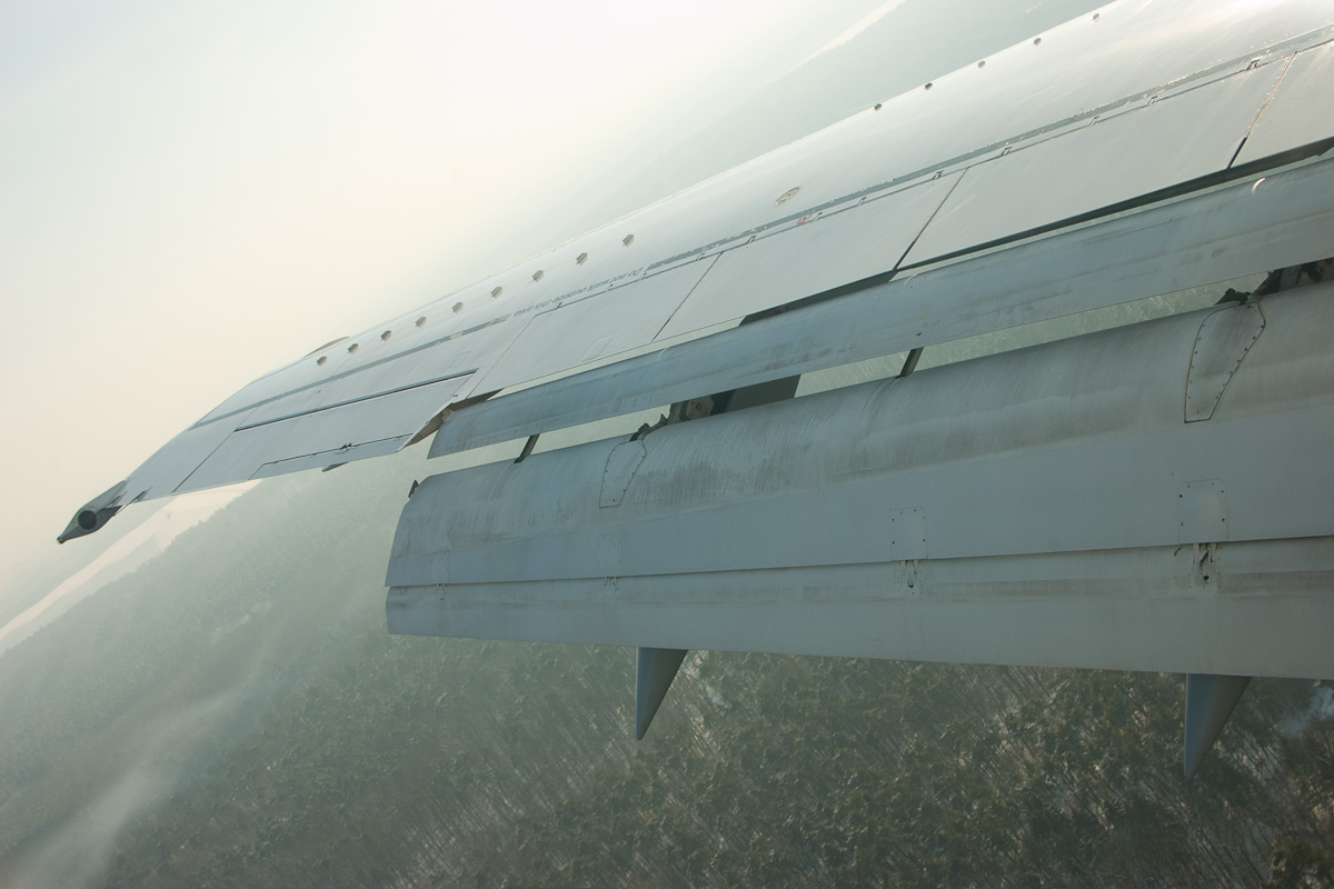 Boeing 737's port wing with flaps fully extended for landing